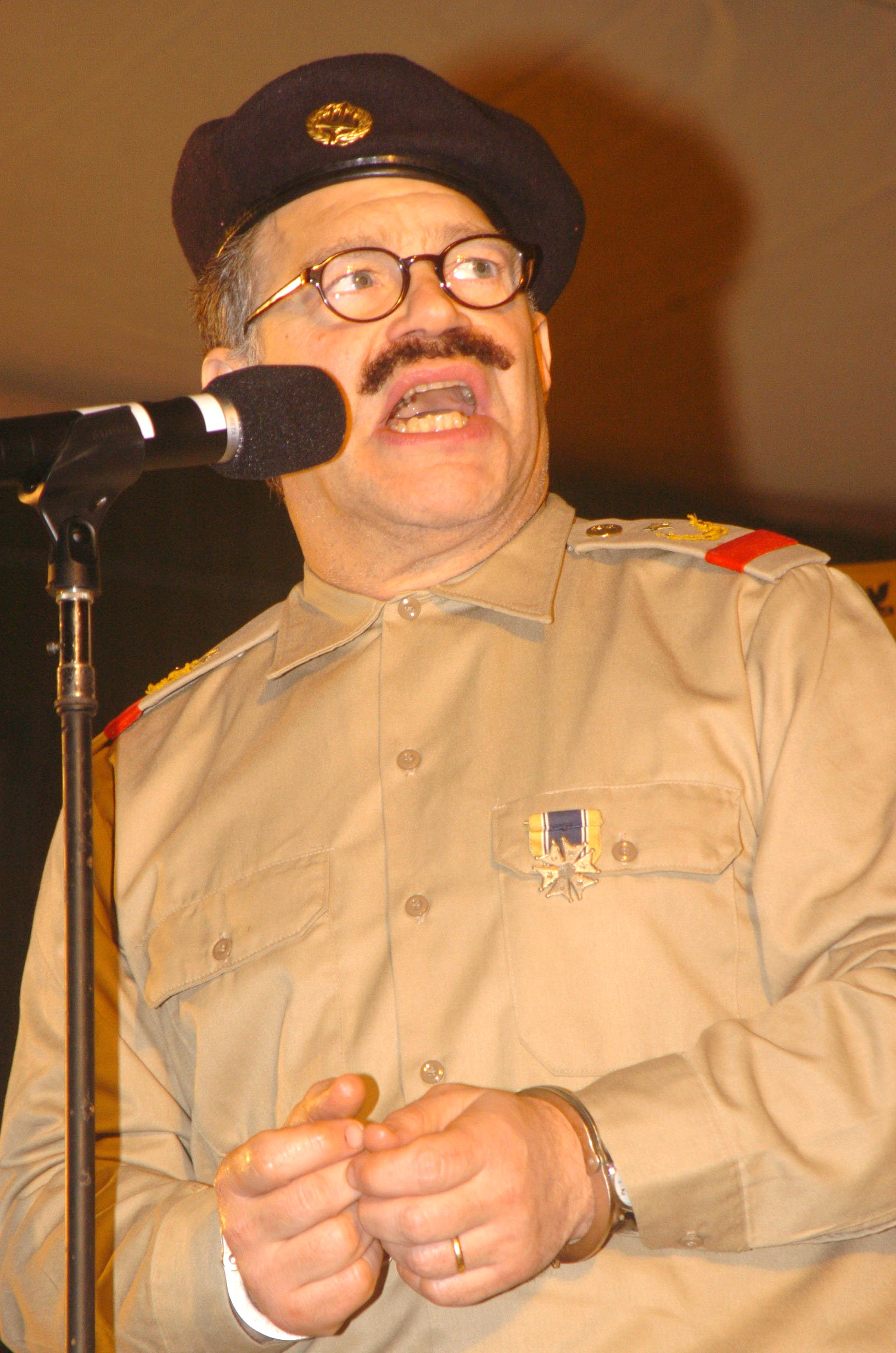 Al Franken, comedian, imitates Saddam Hussein as part of his act during the USO Sergeant Major of the Army Hope and Freedom Tour 2005. Franken, along with other musicians and actors, will tour the Middle East during the holiday season.